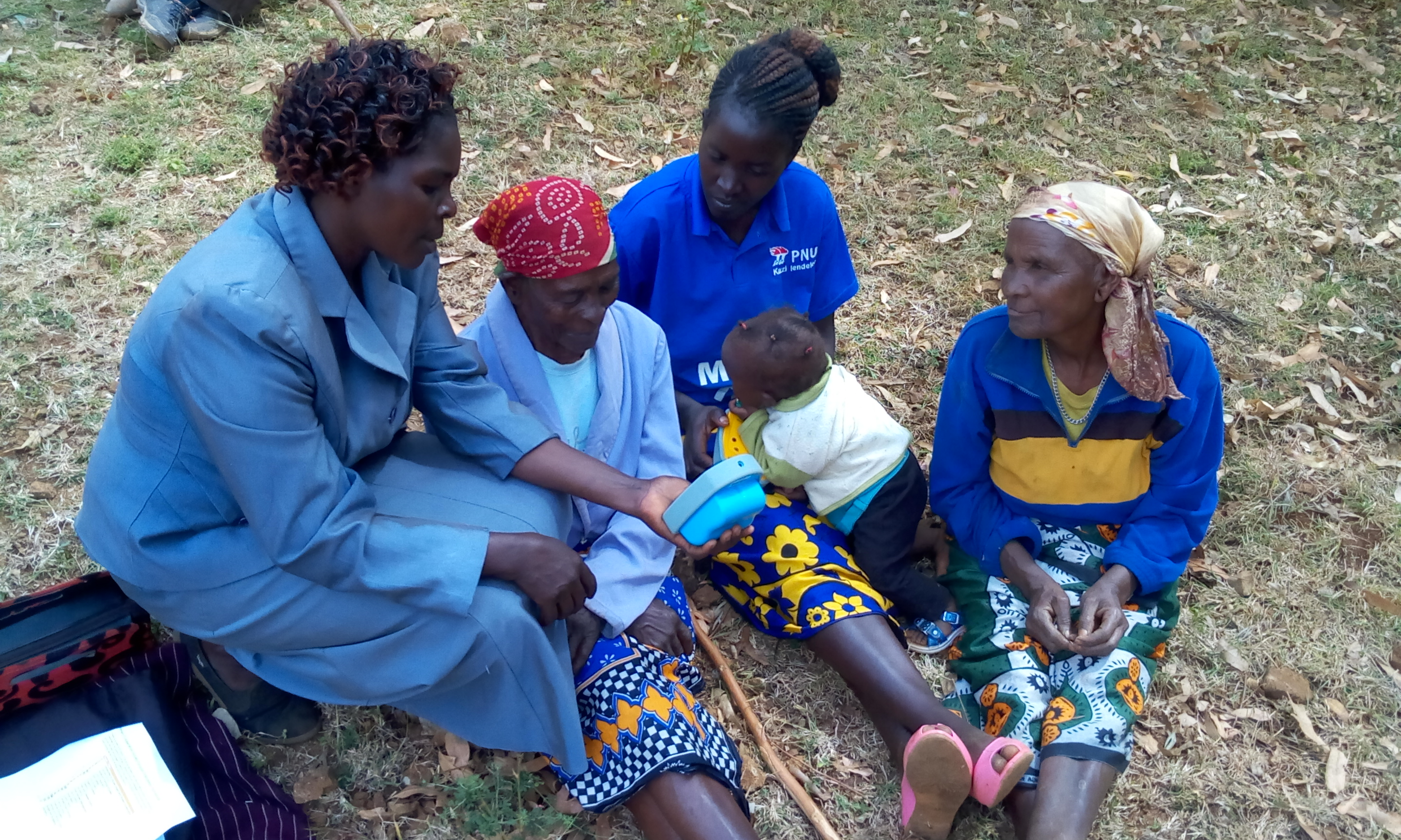 Picture shows a farm extension worker, locally referred to as a coach. Using technology to disseminate information during one of her sorghum farmer training session. This is an image of "African people at work" from Kenya